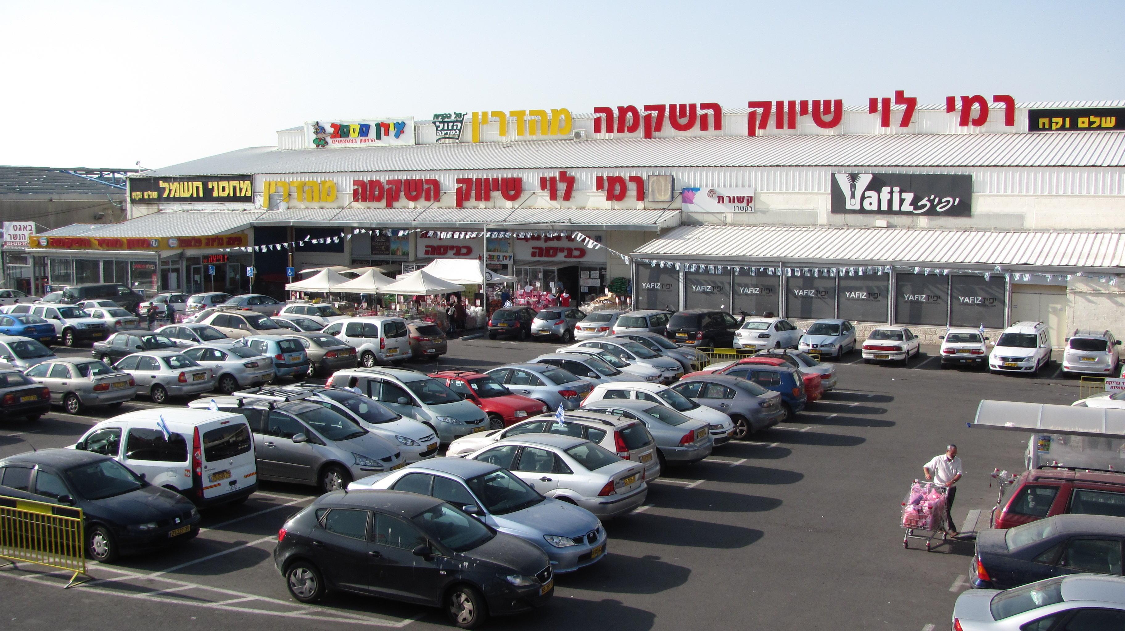 Exterior of Rami Levy HaShikma Marketing supermarket in Givat Shaul, Jerusalem, Israel.